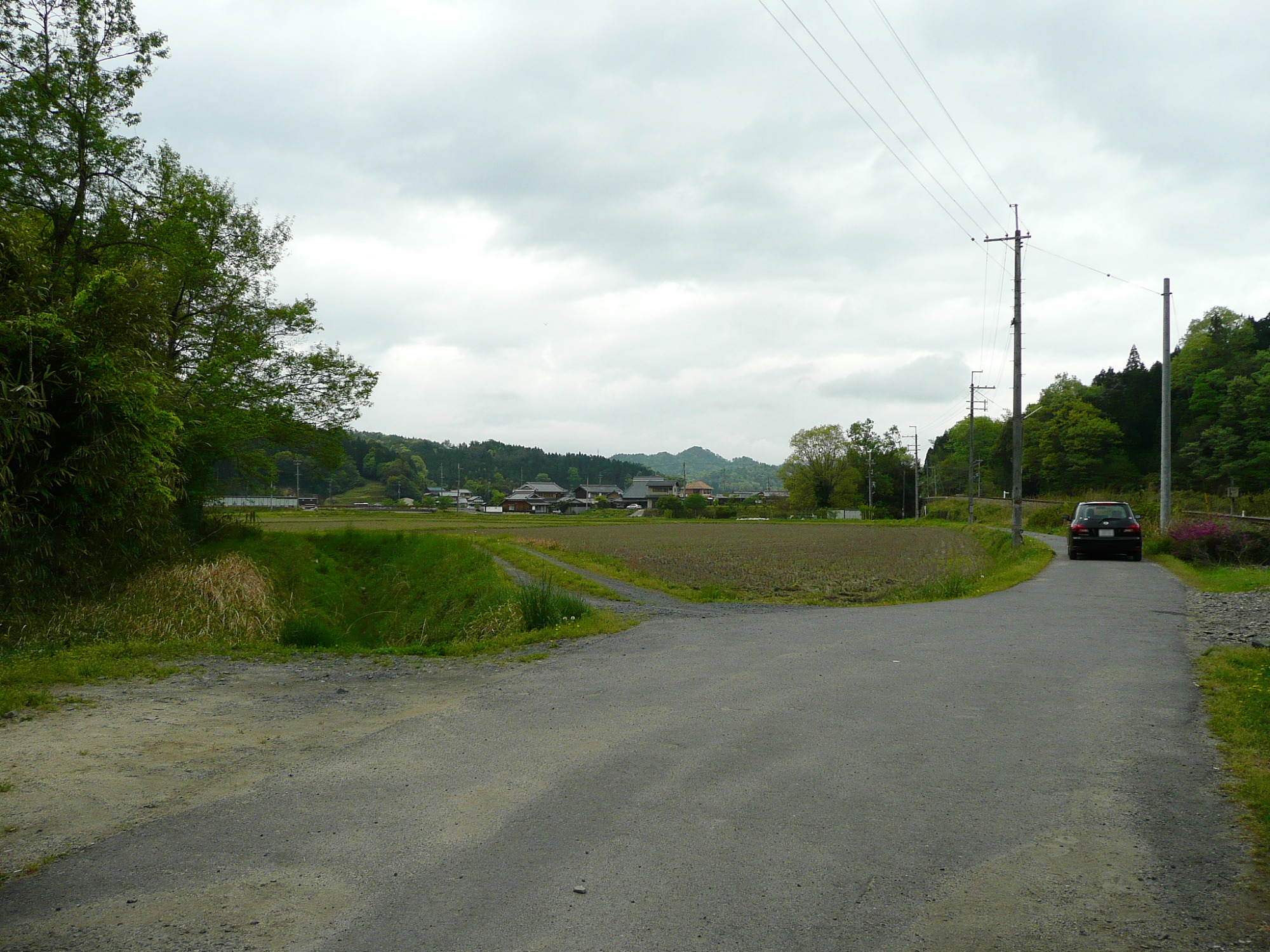 Shigaraki Kogen Railway,The vicinity of Gyokukeijimae Station. / 信楽高原鐵道玉桂寺前駅・駅前風景